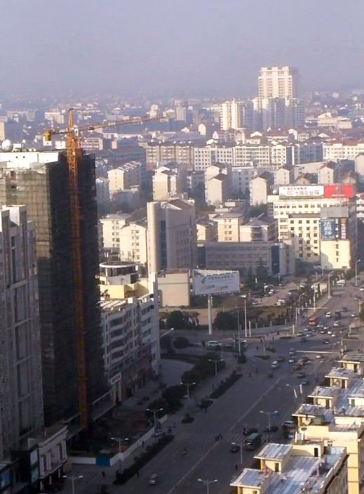 Looking west along Qiankun Avenue (乾坤大道) over its intersection with Beijing Road (北京路) from the 27th floor of the Qiankun Business Hotel towards central Xiaogan's southern area. Xiaogan is about 60 km northwest of the capital of Hubei province, Wuhan. Screen capture of a video taken at 9:30 local time. +Auto levels in Adobe Photoshop Elements 6.0